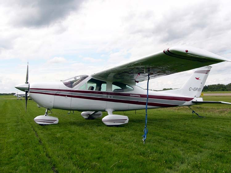 Cessna 177B Cardinal (C-GREO)